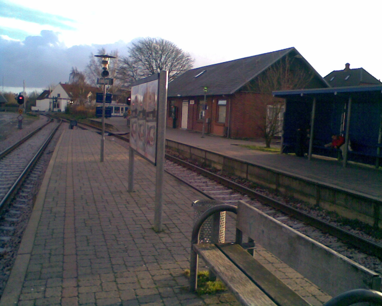 Tranbjerg Station, Denmark